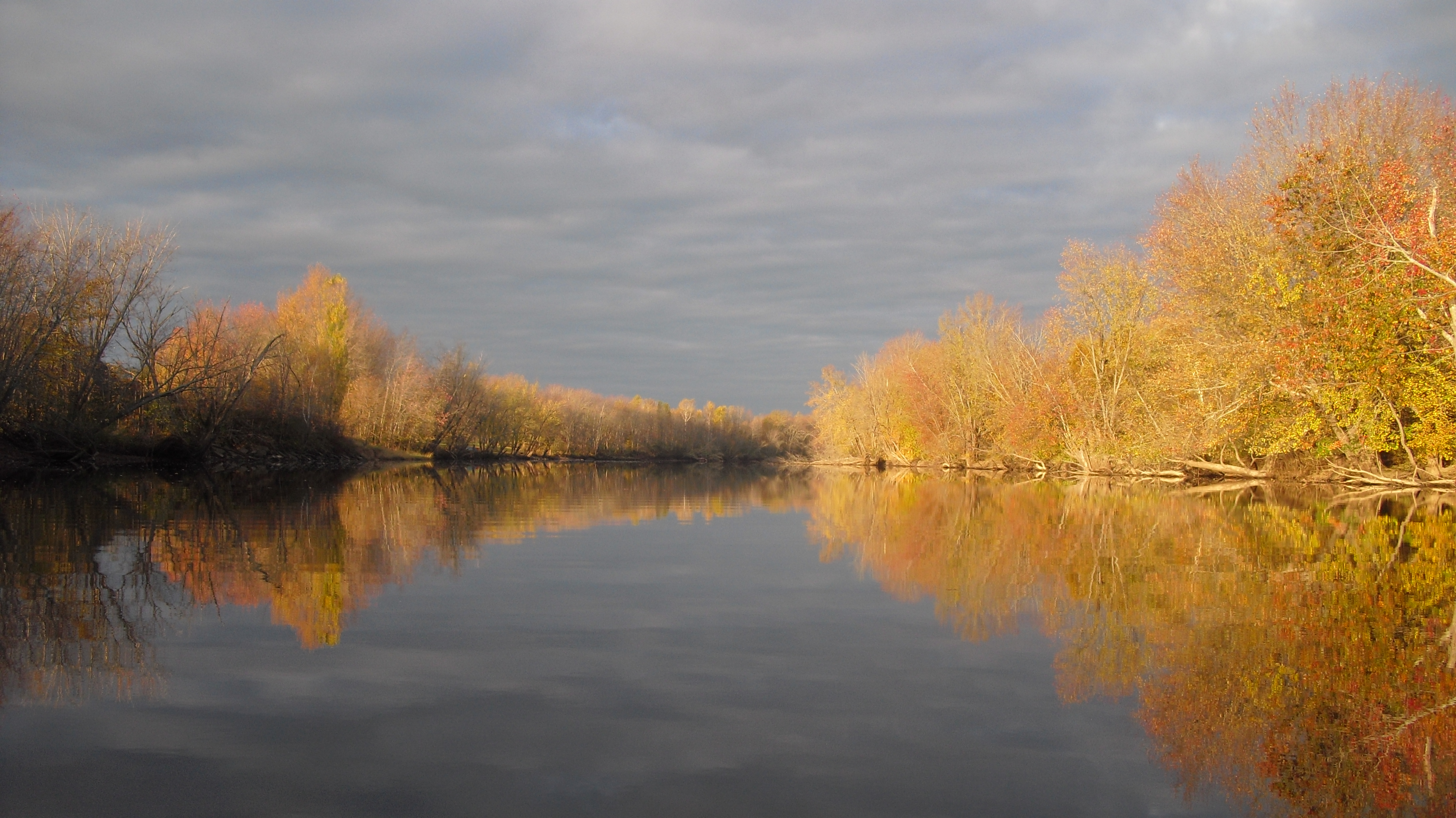 Loved the sun making an appearance just as we arrived in Oromocto for a day of fishing. - Sunrise Oromocto River New Brunswick October 2011